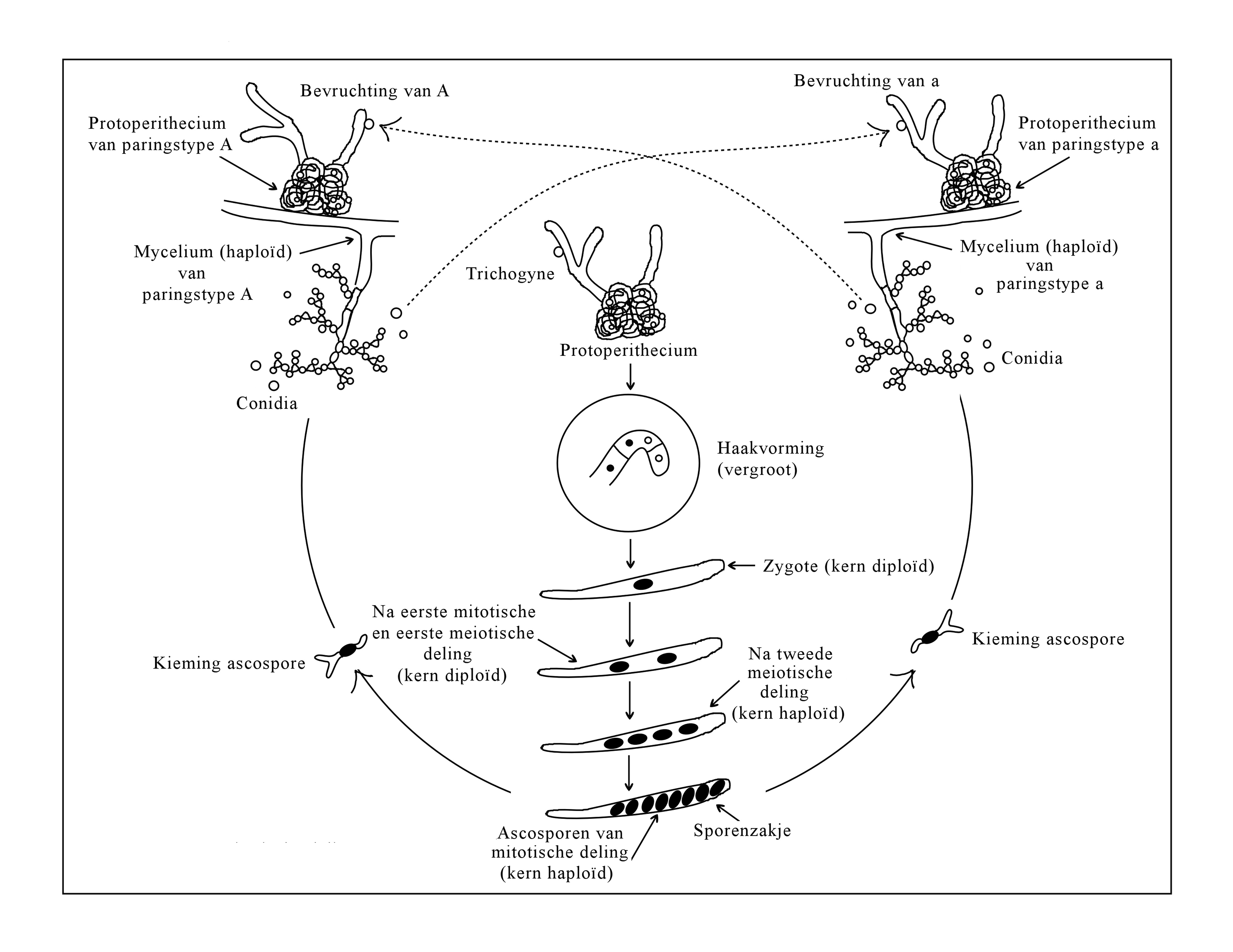 Neurospora crassa life cycle. The haploid mycelium reproduces asexually by two processes: (1) simple proliferation of existing mycelium, and (2) formation of conidia (macro- and micro-) which can be dispersed and then germinate to produce new mycelium. In the sexual cycle, mating can only occur between individual strains of different mating type, A and a. Fertilization occurs by the passage of nuclei of conidia or mycelium of one mating type into the protoperithecia of the opposite mating type through the trichogyne. Fusion of the nuclei of opposite mating types occurs within the protoperithecium to form a zygote (2N) nucleus.